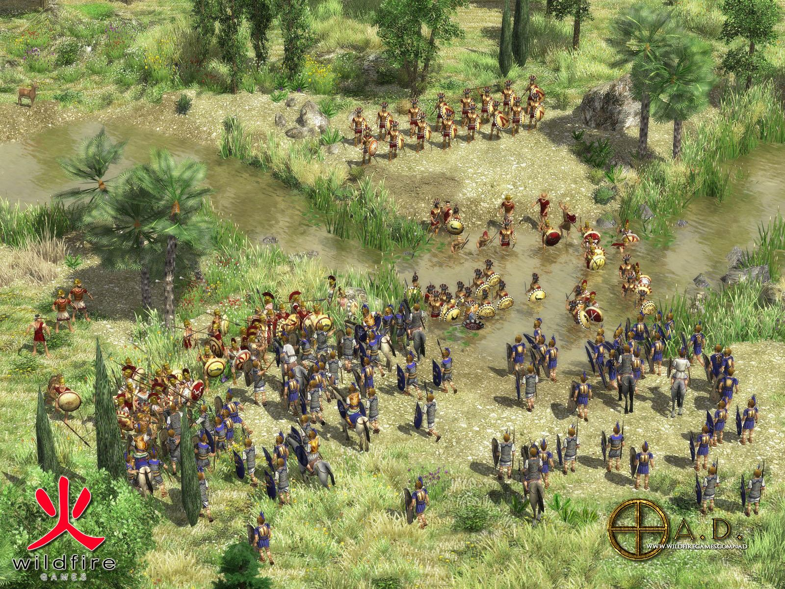 Screenshot of 0 A.D. game